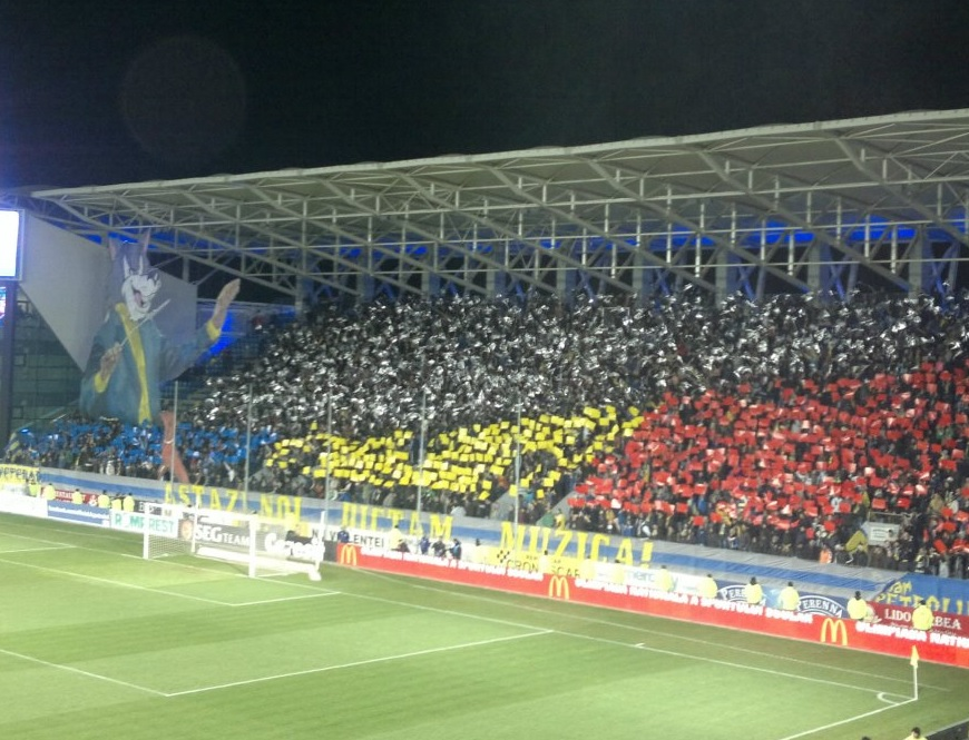 FC Petrolul Ploiești choreography (3D) during a home match